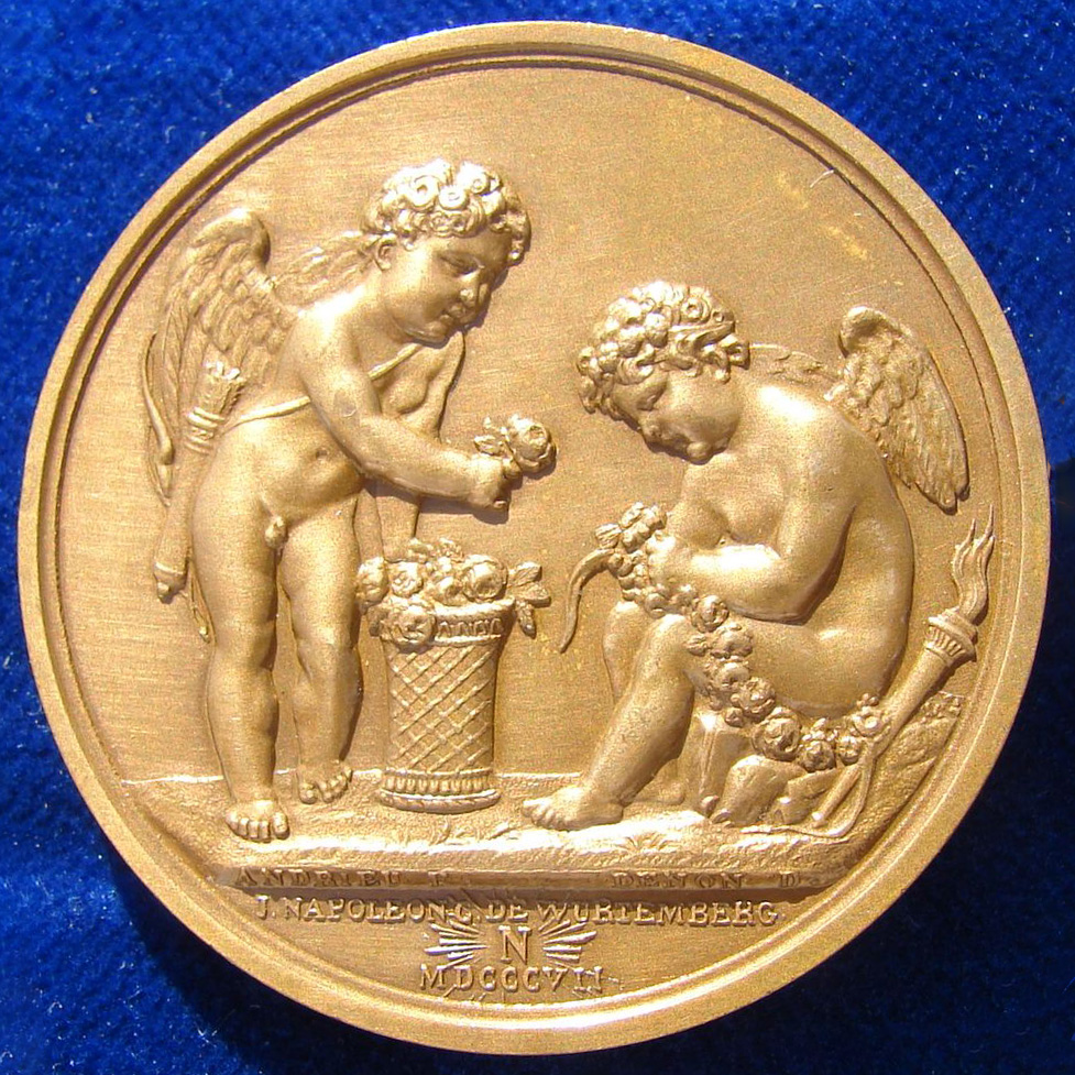 Wedding of the youngest brother of Napoleon to HRH Princess Catharina of Württemberg. Bronze medallion d.= 41 mm. Napoleon I, 1804 - 1814 & Jérôme Bonaparte, 1784 Ajaccio, Corsica - 1860 Villegenis, France & Princess Catharina Frederica of Württemberg, 1783 Saint Petersburg, Russian Empire - 1835 Lausanne, Switzerland. Head r., around: "NAPOLEON EMP. ET ROI."/ Hymen and Amor, 3 lines in exergue: "J. NAPOLEON C. DE WURTEMBERG. N MDCCCVII". Edge lettering: "1967 BRONZE". Julius 1794. Medallists: (Bertrand) Andrieu, 1761 Bordeaux - 1822 Paris and (Dominique Vivant) Denon , 1747 Paris - 1825 Paris. Condition: Perfect UNCIRCULATED, no hidden problems.